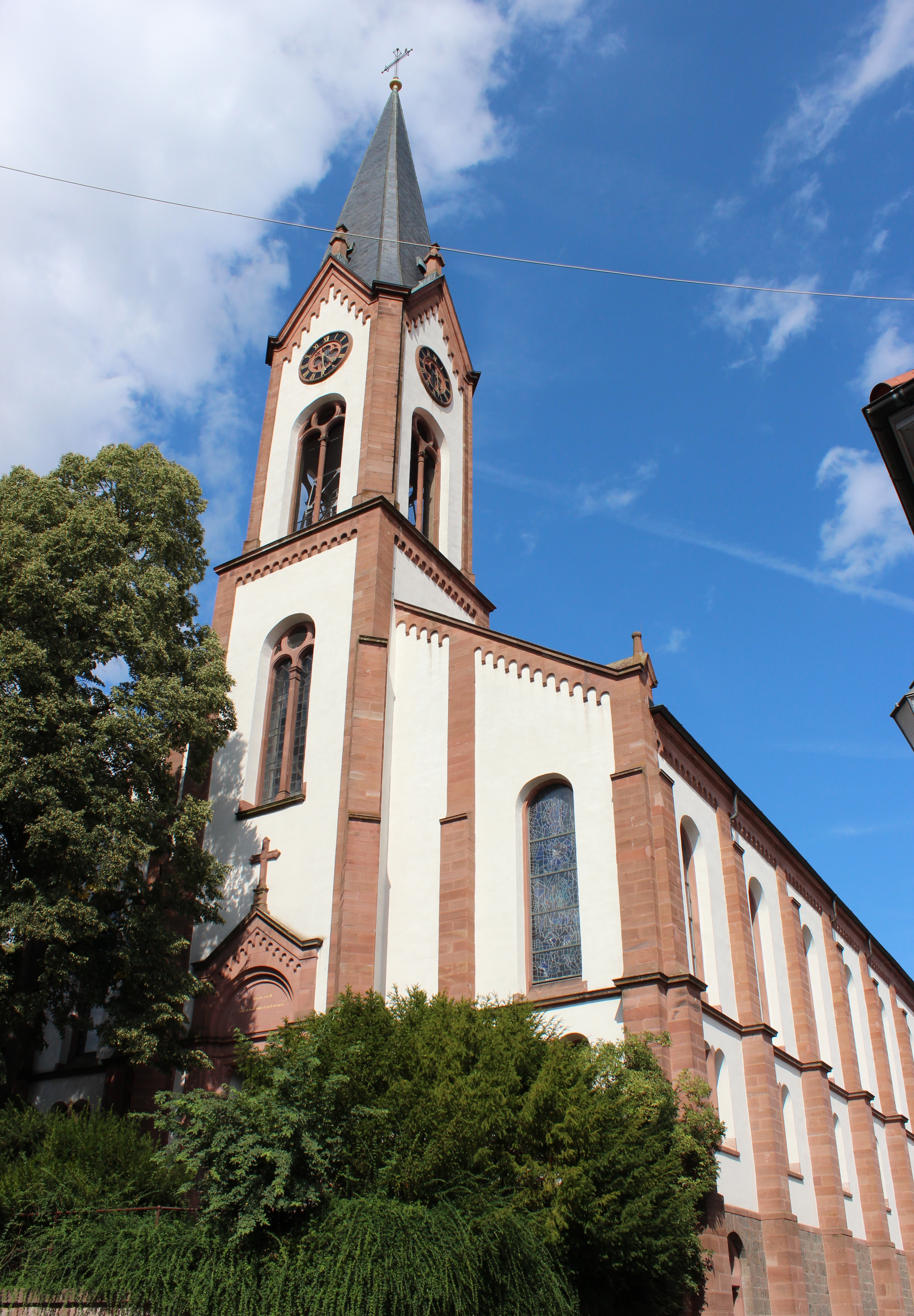 Evangelical Church of Ihringen (Baden-Wuerttemberg, Germany)